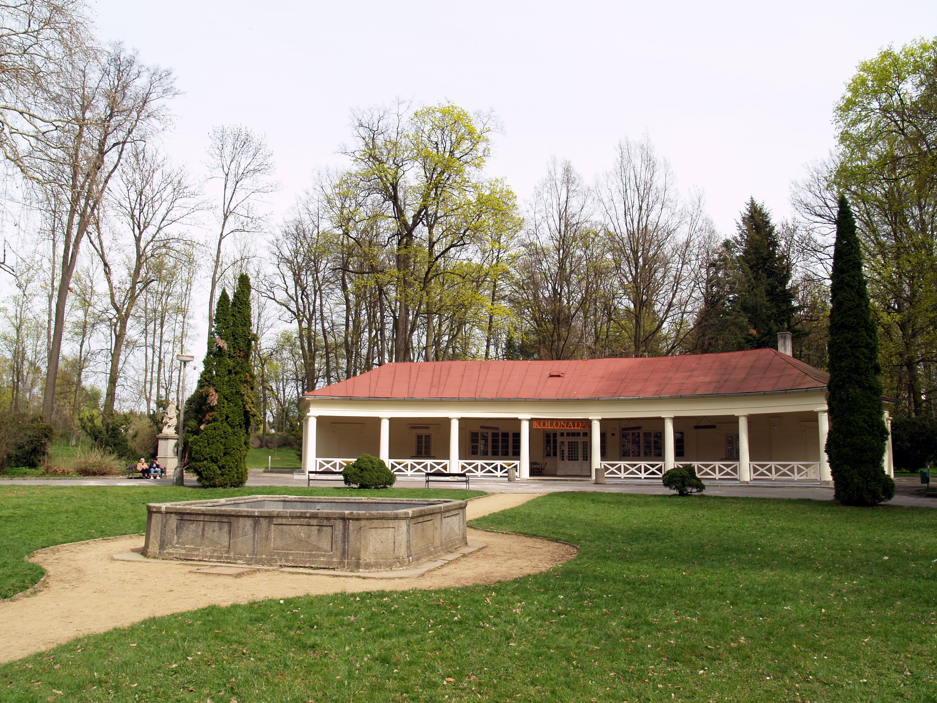 v parku